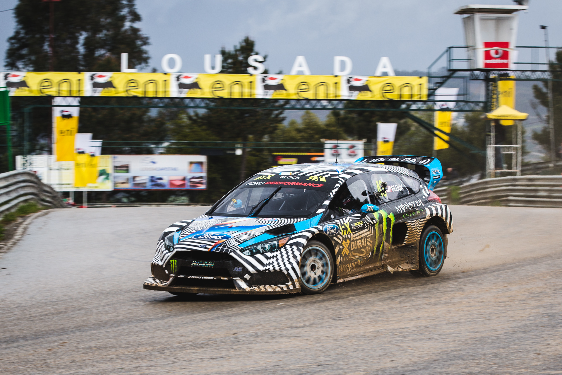 Ken Block in his Ford Focus RS RX at Round 1 of the 2016 FIA World Rallycross Championship at Pista Automóvel de Montalegre, Portugal.